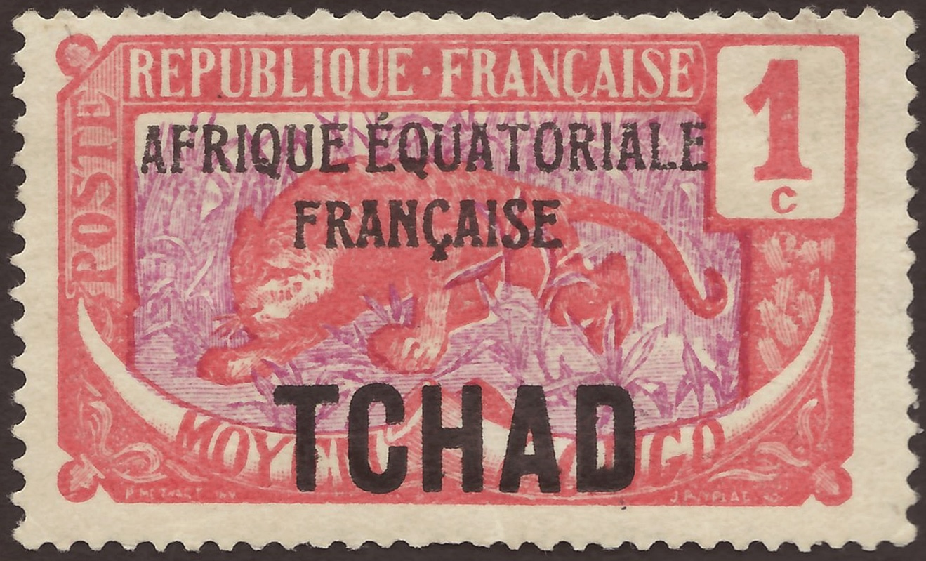 Stamp of the French colony "Tchad" as part of the protectorate "French Equatorial Africa"; 1924; definitive stamp of "Middle Congo" of the issue "Leopard" in new colors with twofold black overprint; overprint 1: two-lined black "AFRIQUE ÉQUATORIALE FRANÇAISE"; overprint 2: single lined, black, but with greater characters "TCHAD"; mint stamp: framed drawing of a Leopard (Panthera pardus); mint stamp Stamp: Michel: No. 19; Yvert et Tellier: No. 19 Color: dark rose to orange red / violet Watermark: none Nominal value: 1 C (Centime) Postage validity: from 1924 until ? Stamp picture size (printed area): 35.0 x 21.5 mm